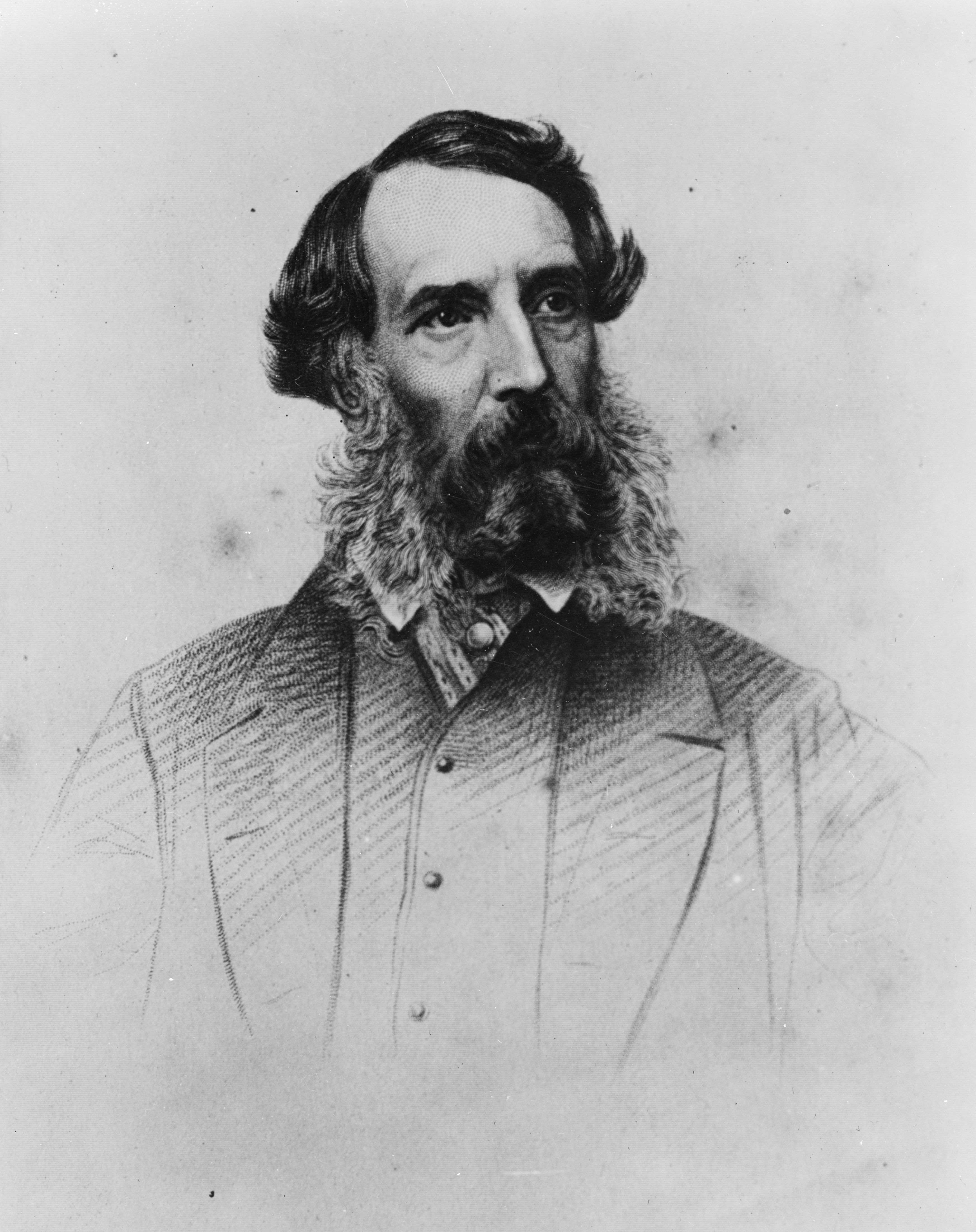 Edward John Eyre